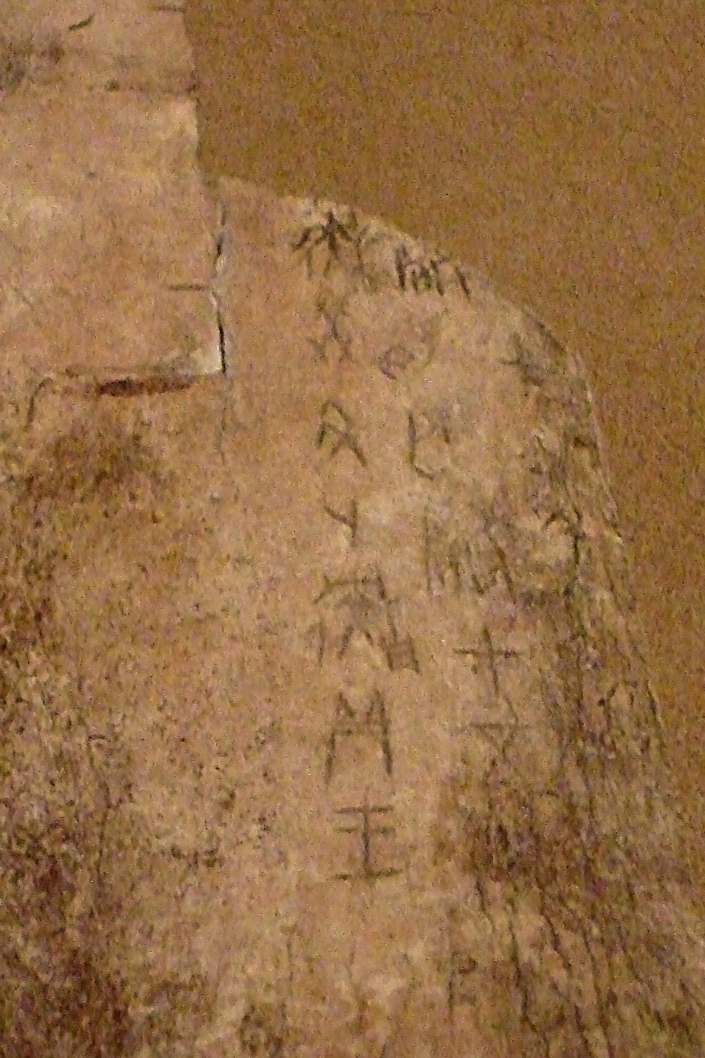 Oracle bone inscribed with the characters "xun wu jiu" Shang Dynasty (1600 - 1046 B.C.) This oracle bone is incomplete. A diviner asked the Shang king if there would be misfortune over the next ten days; the king replied that he had consulted the ancestor Xiaojia in a worship ceremony. The characters are approximately 1cm tall.